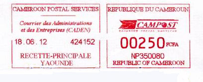 Meter stamp catalog image, Cameroon type C13